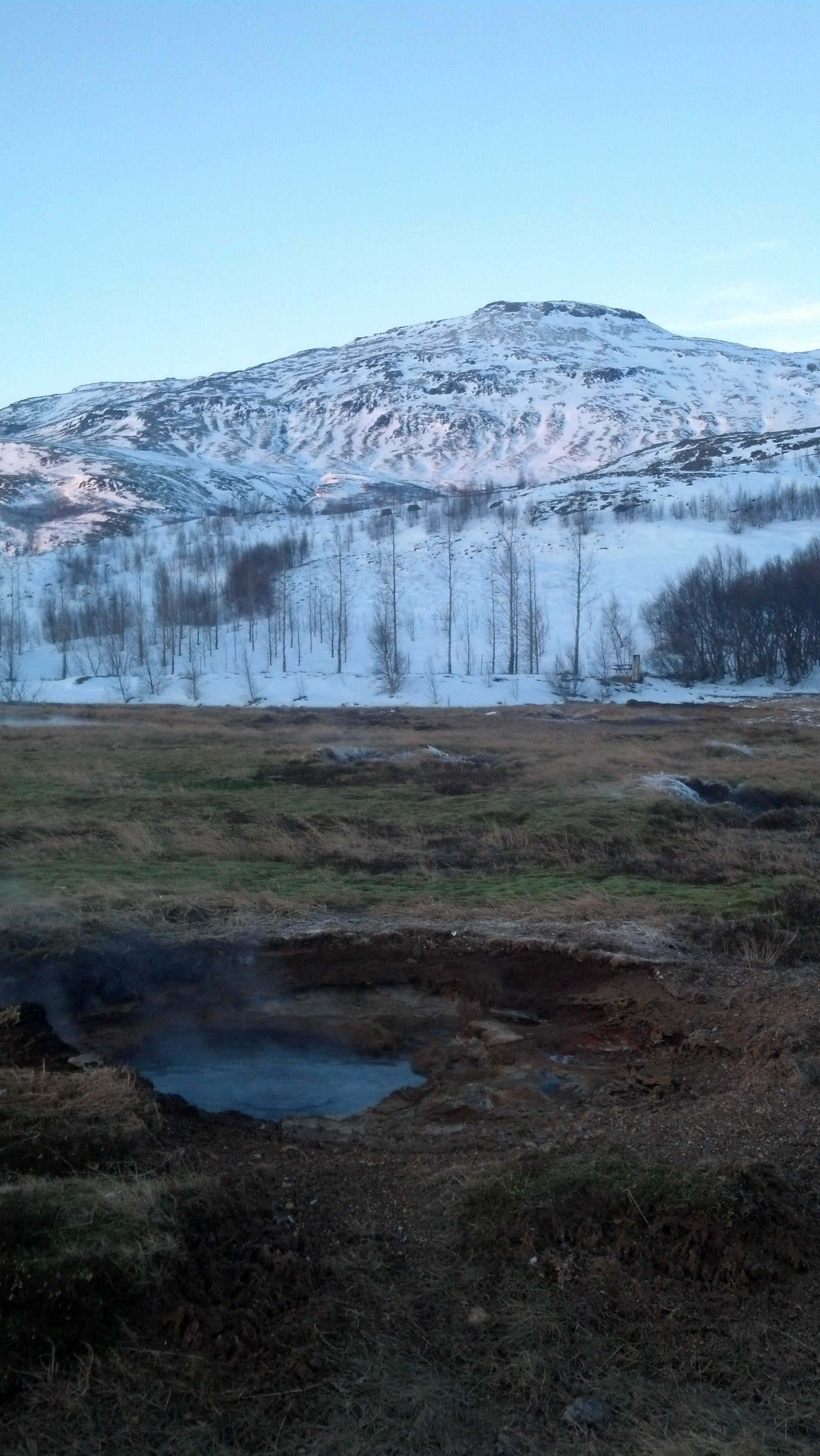 Steam escaping a geyser east of Reykjavik, Iceland. Photo by Anthony M. Inswasty